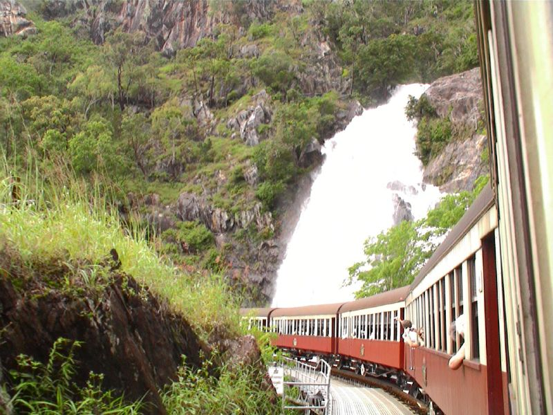 Looking Back / End of el tren.